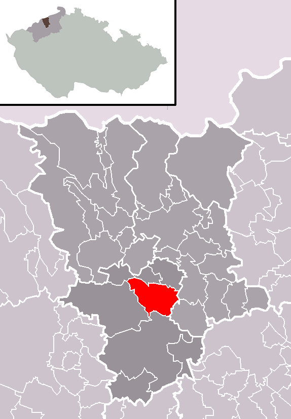 Location of Světec municipality within Teplice District and administrative area of Bílina as a Municipality with Extended Competence.